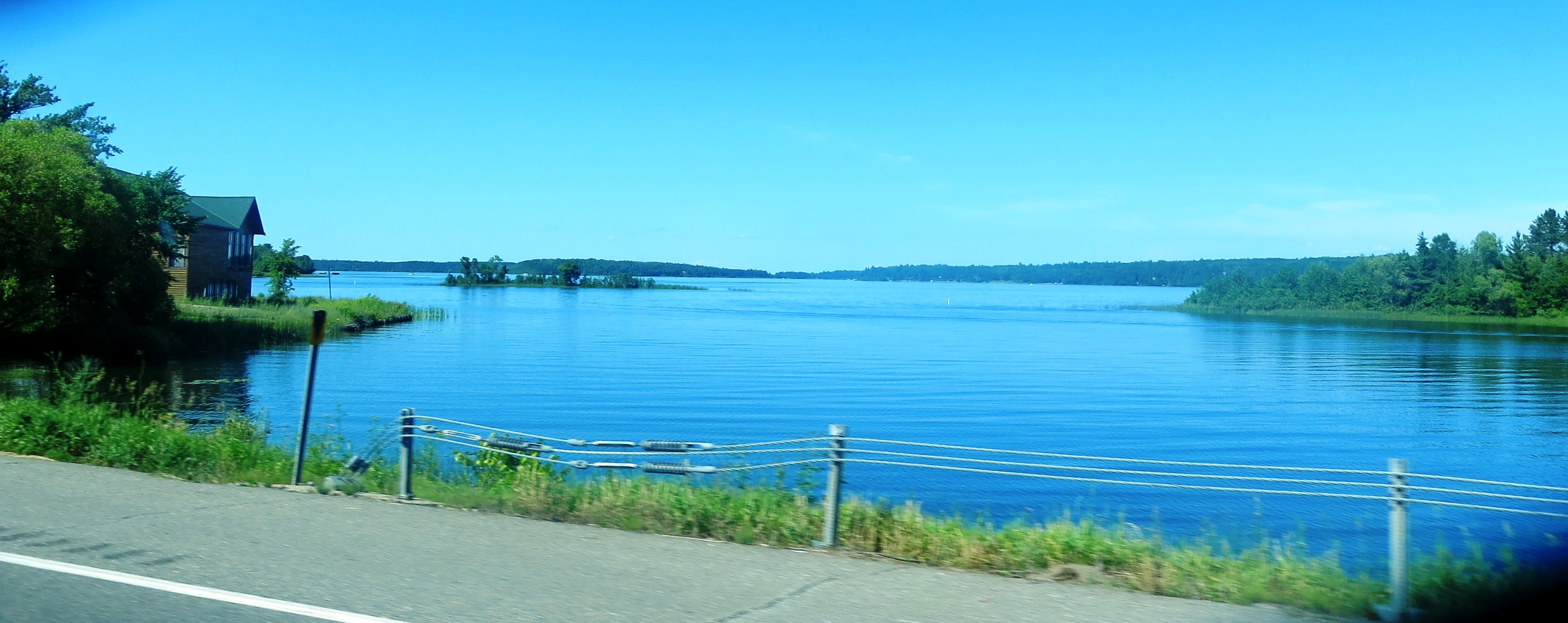 Cass county, Minnesota, along state highway no 200.